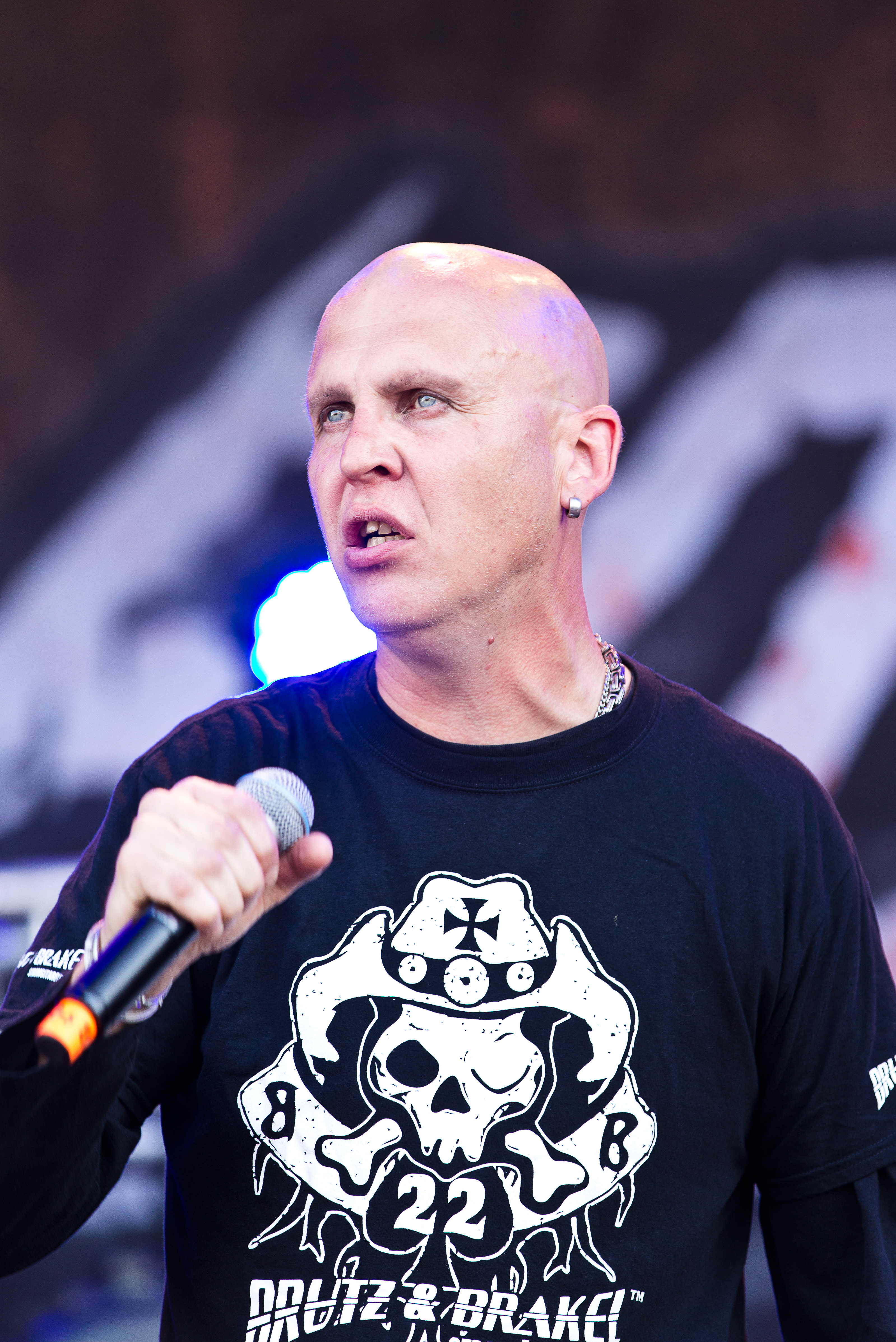 The German death metal band Postmortem at the Party.San Open Air 2015 in Obermehler-Schlotheim/Germany.